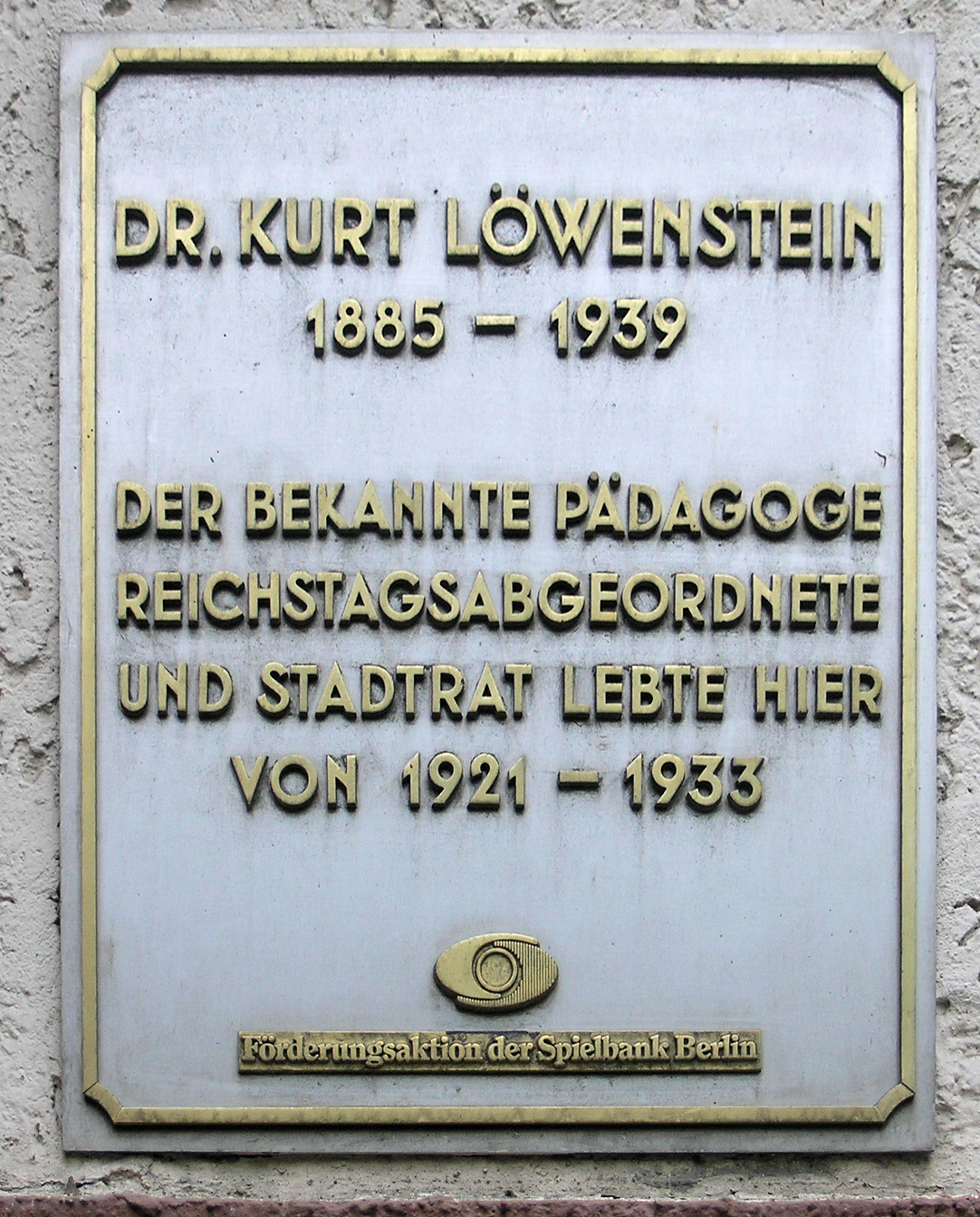 Memorial plaque, Kurt Löwenstein, Geygerstraße 3, Berlin-Neukölln, Germany Koordinate:52°28′20″N 13°26′4″E / 52.47222°N 13.43444°E